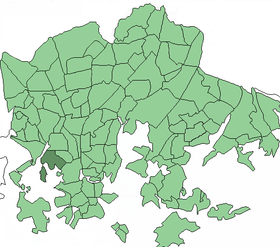 Districts of Helsinki city, Meilahti highlighted.